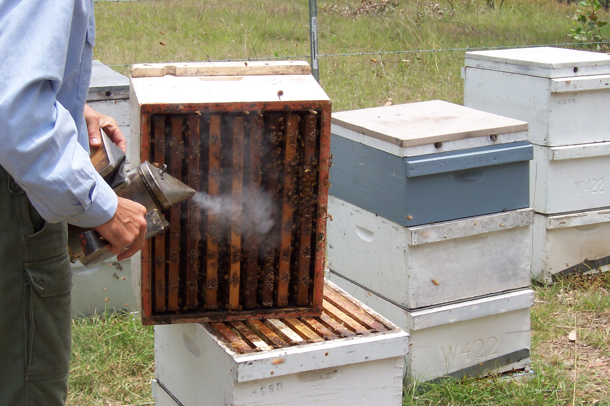 Smoking a bee box to remove the bees